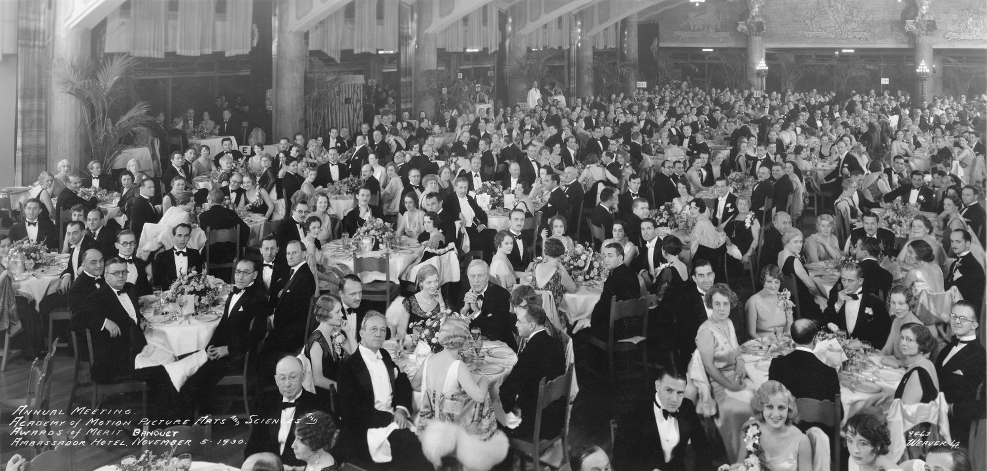 The 3rd Oscars